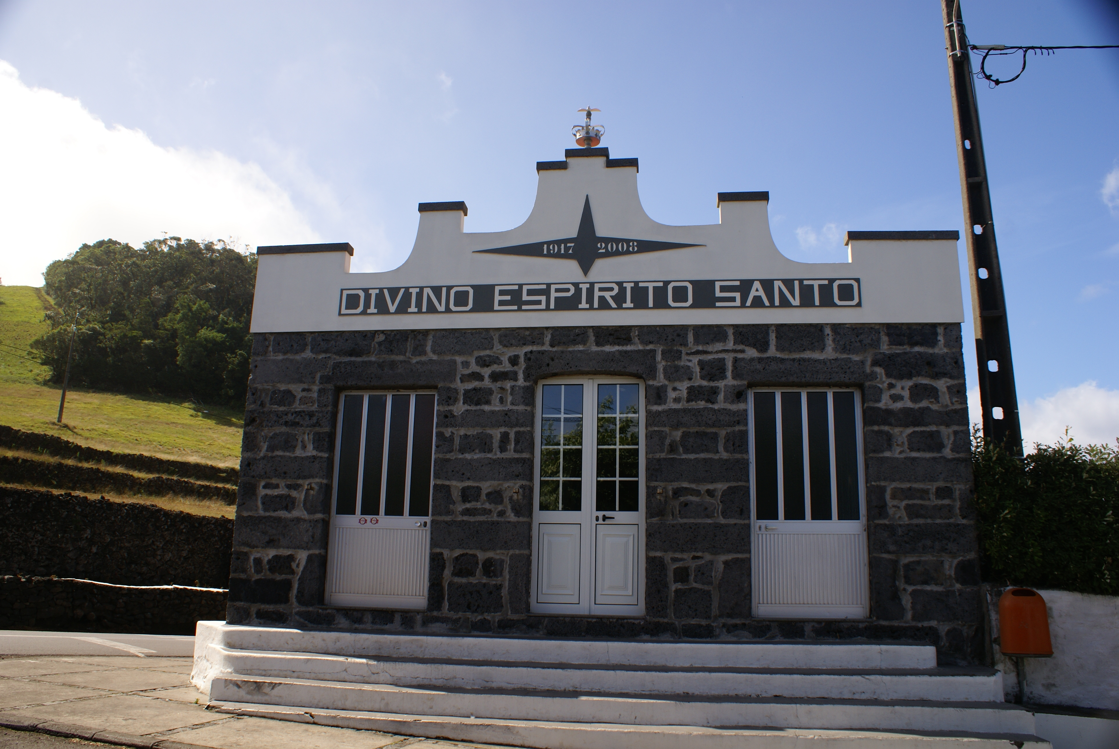 Império do Espírito Santo da Piedade, concelho das Lajes do Pico, ilha do Pico, Açores, Portugal